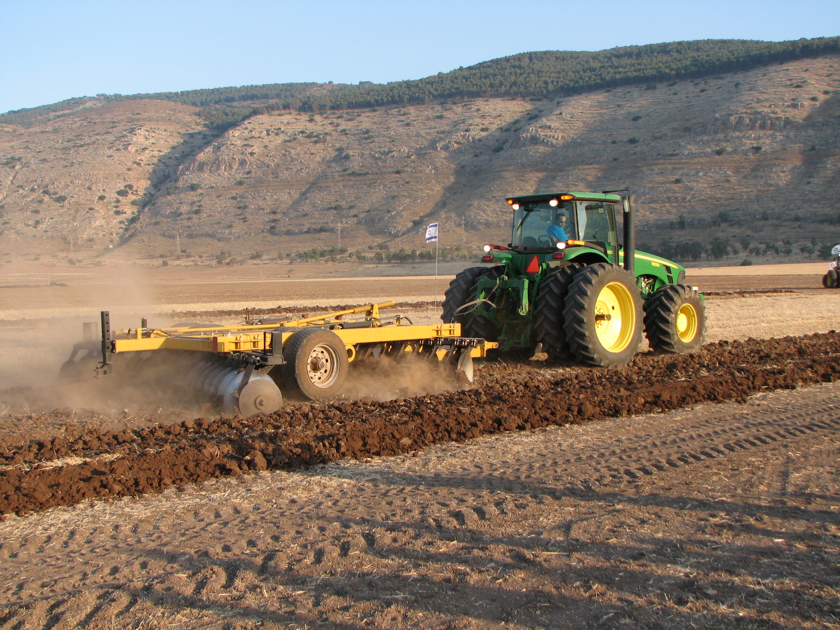 A John Deere 8330 tractor pulling a disc harrow somewhere in Israel